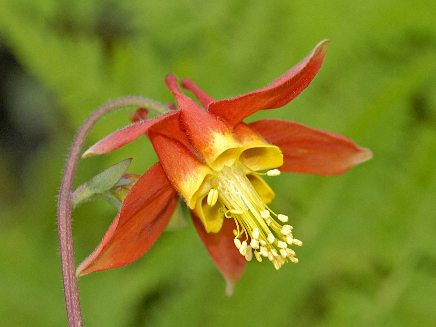 Flower of Aquilegia flabellata var. pumila f. kurilensis 'Rosea' at the Giardino Botanico Alpino Chanousia